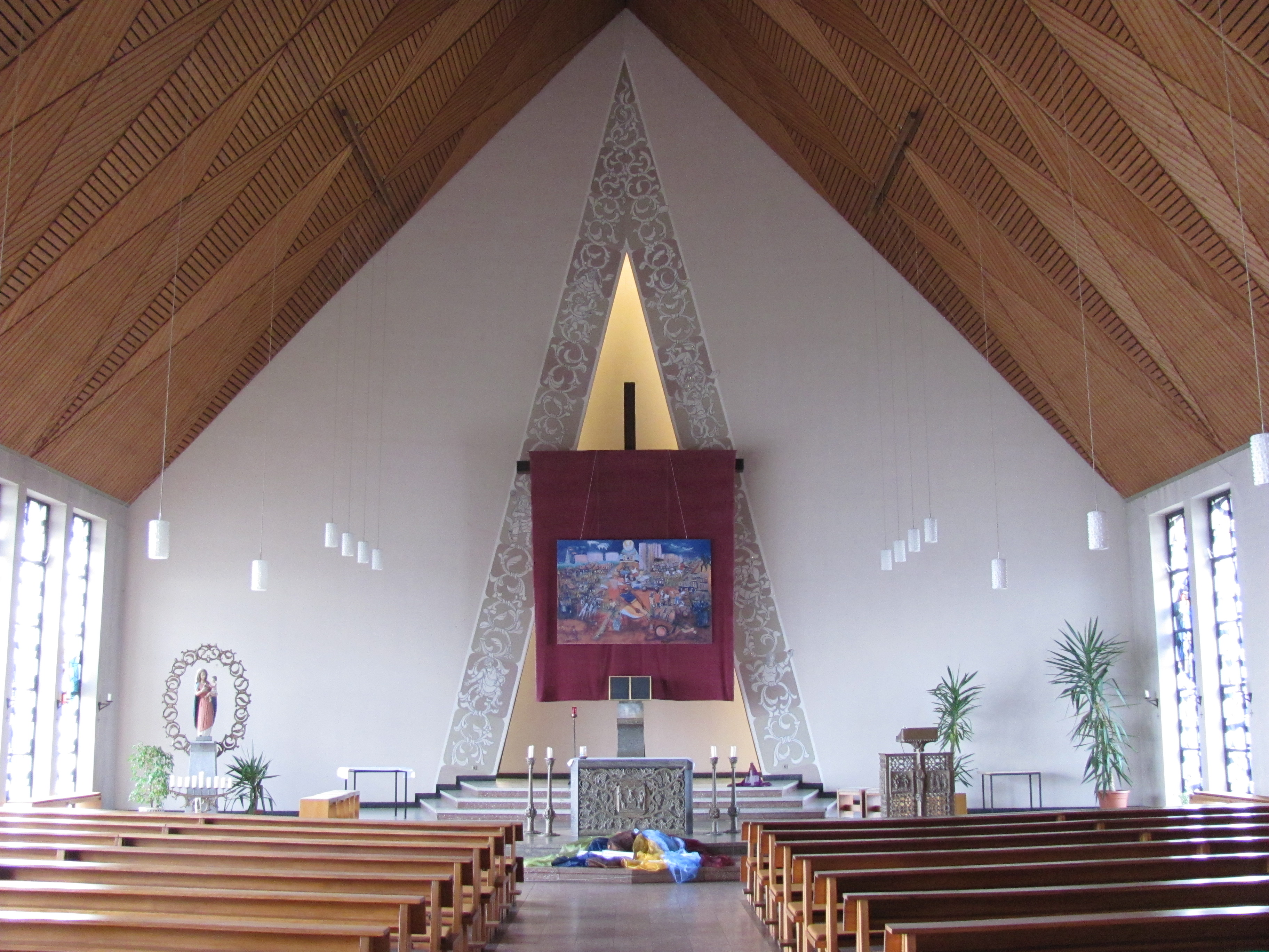 Catholic Church "Holy family", Bad Salzdetfurth, Lower Saxony, Germany